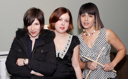 pre-show group photo - thanks s-k!